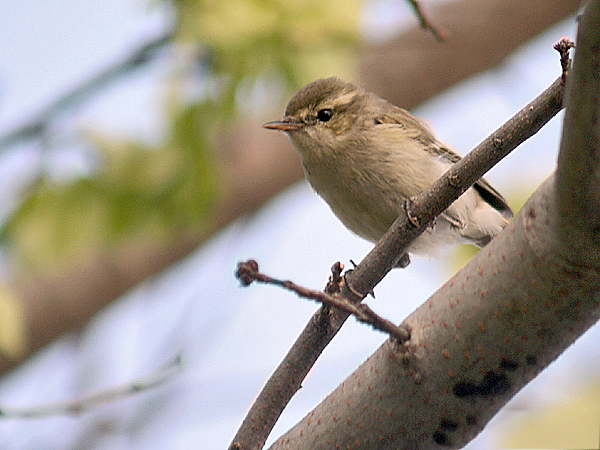 Greenish Warbler Phylloscopus trochiloides in Bhopal, Madhya Pradesh, India.